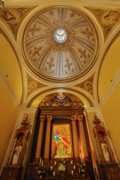 Our Lady of Divine Providence and one of the domes in the Cathedral of San Juan, Puerto Rico.